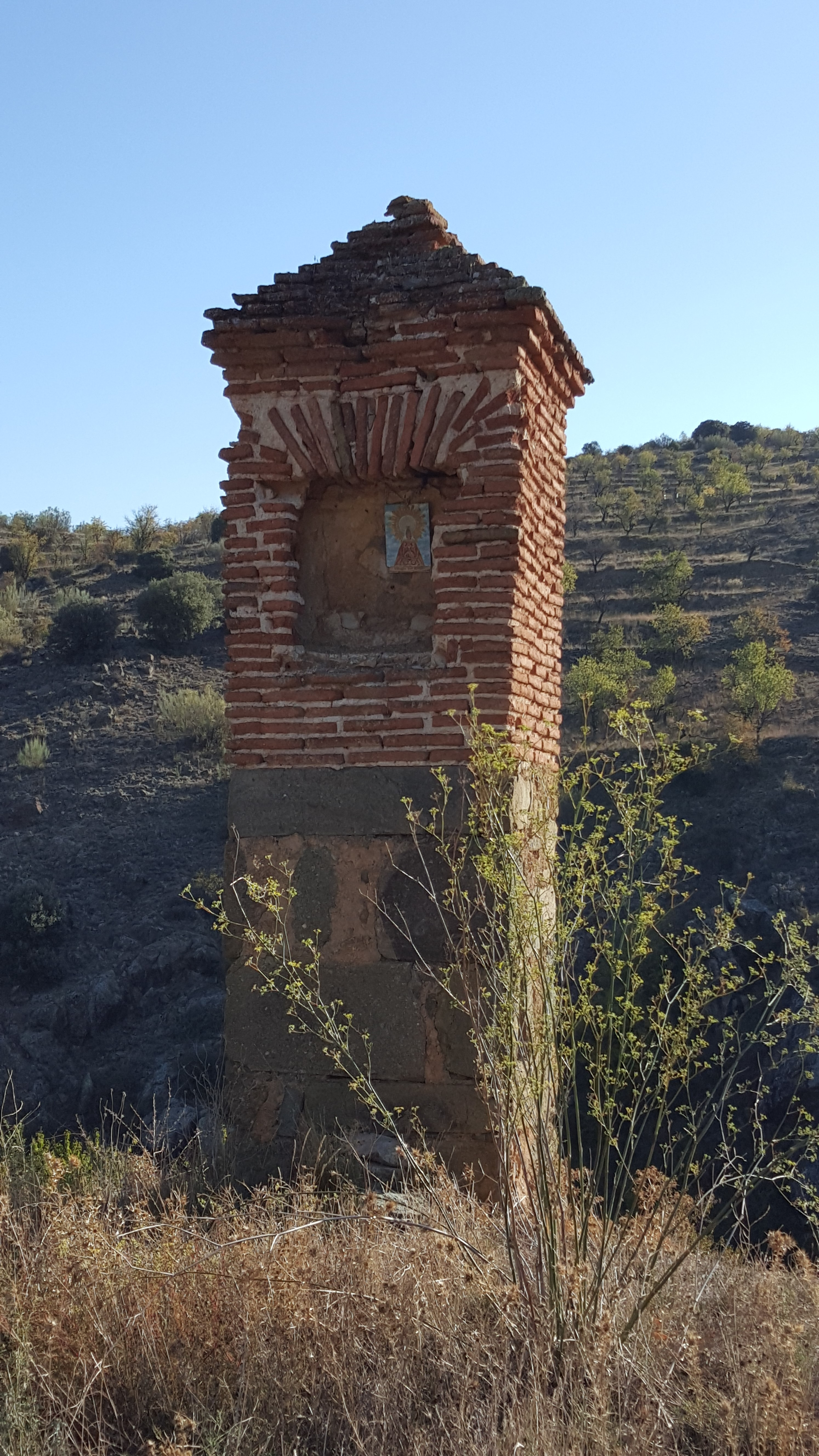 Peirón de las Almas, Codos, Zaragoza, Spain